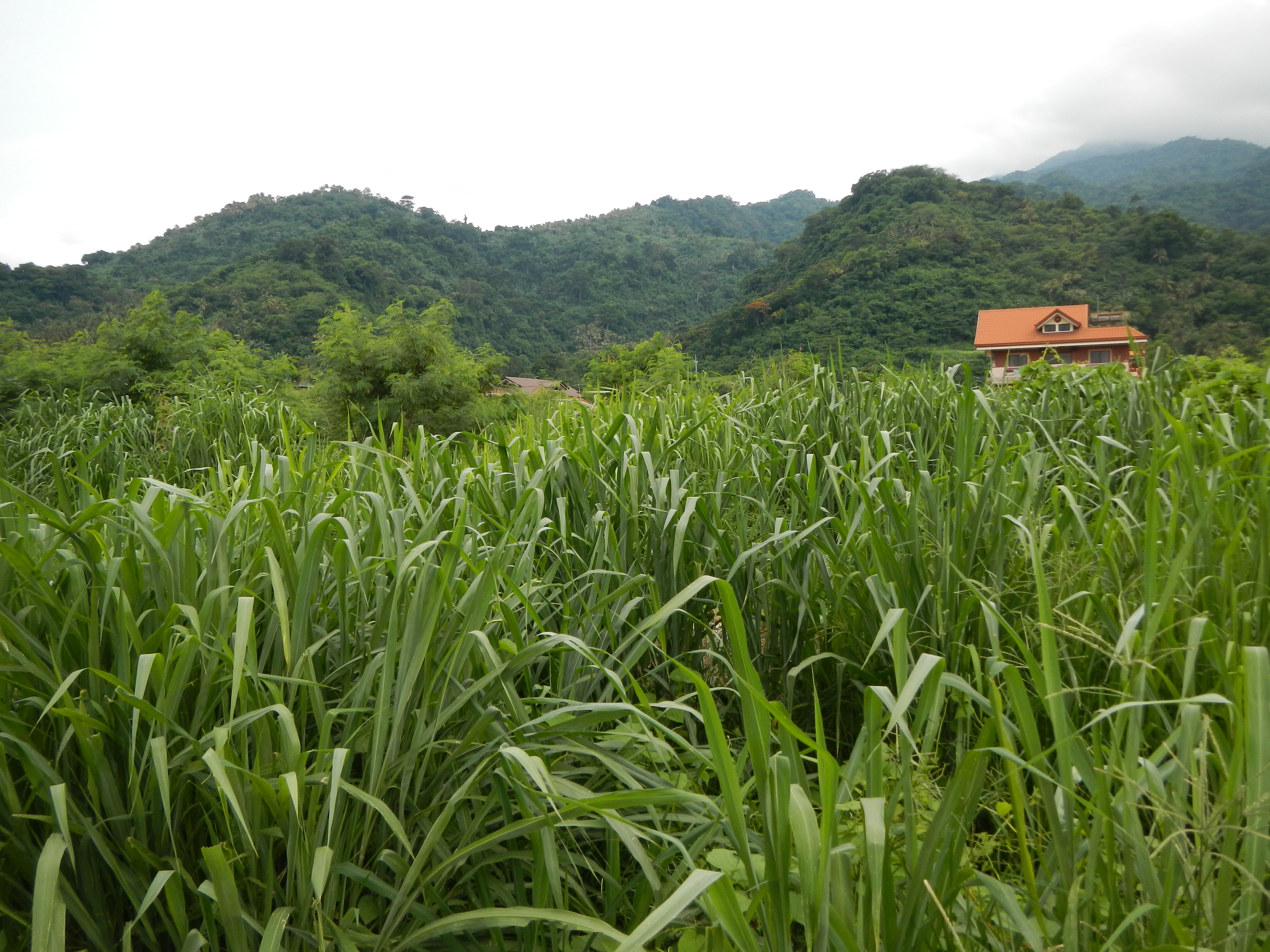 Welcome Arch of Boundary Barangays of -- Los Baños, Laguna[1] & Calamba City[2] Calamba-Sta. Cruz-Famy Junction Road Laguna 2nd Ld Koo57+660-K0059+290 Los Baños Sectionrom Calamba to Los Baños: A Lifetime’s Journey